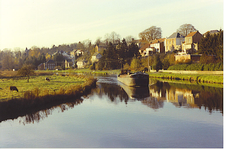 Merbes-le-Château, Belgium: The river Sambre